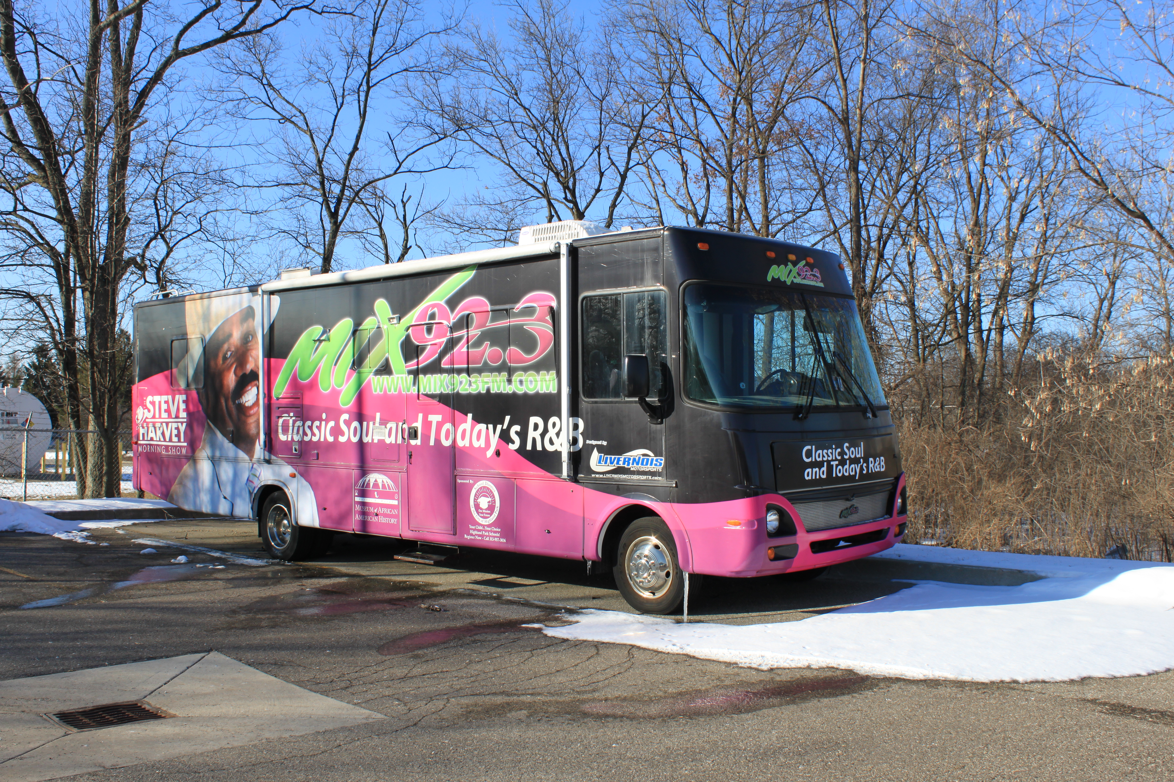 Radio Station WMXD station bus at Clear Channel Building, 27675 Halsted Road, Farmington Hills, Michigan.